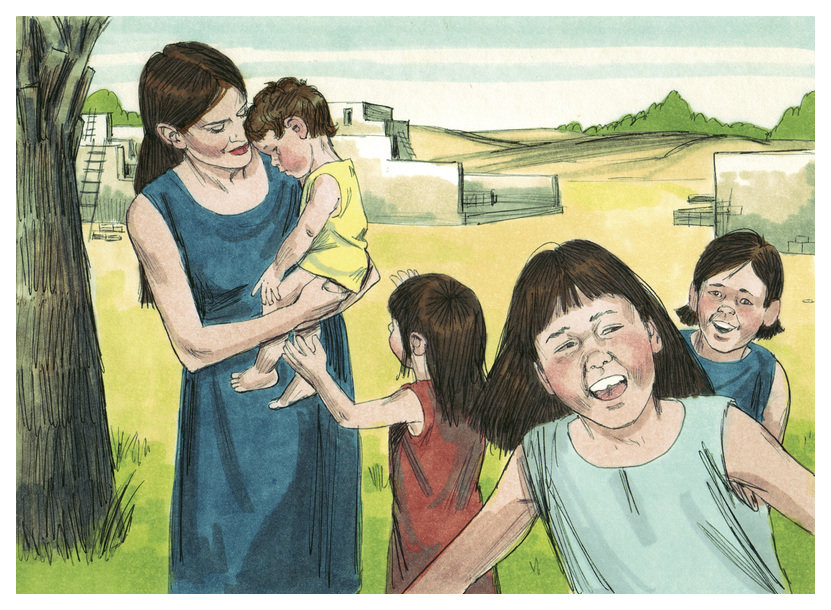 Biblical illustration of Book of Exodus Chapter 2